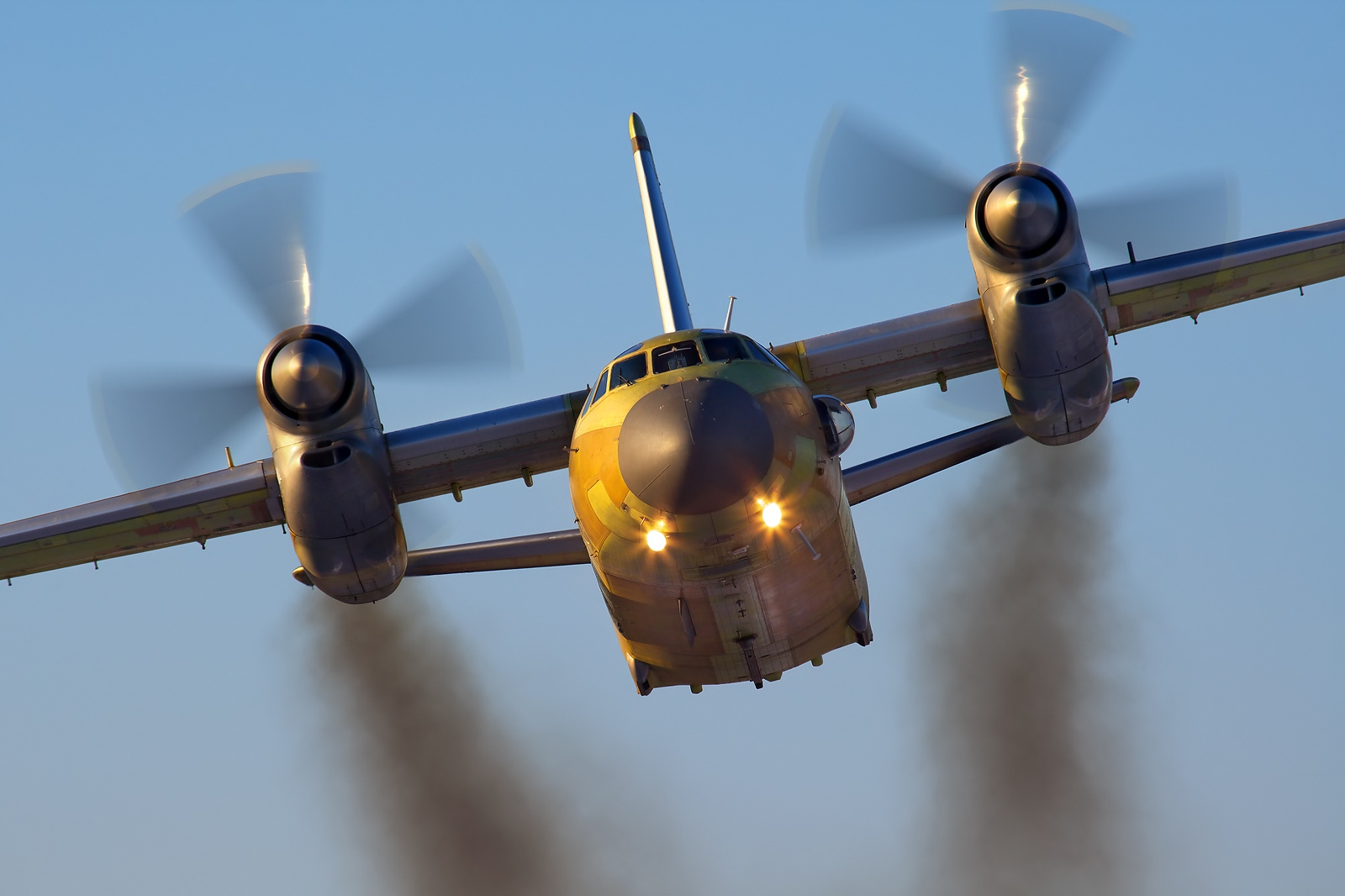 The brand new unpainted An-32 is being tested prior to delivery to customer